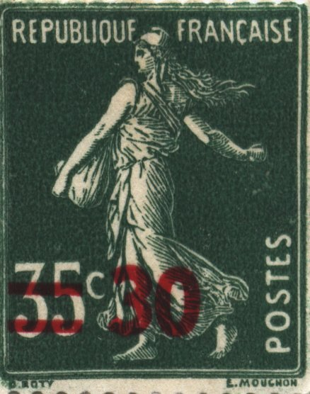 Stamp of France, type Semeuse, overprint 30 c. on 35 c.